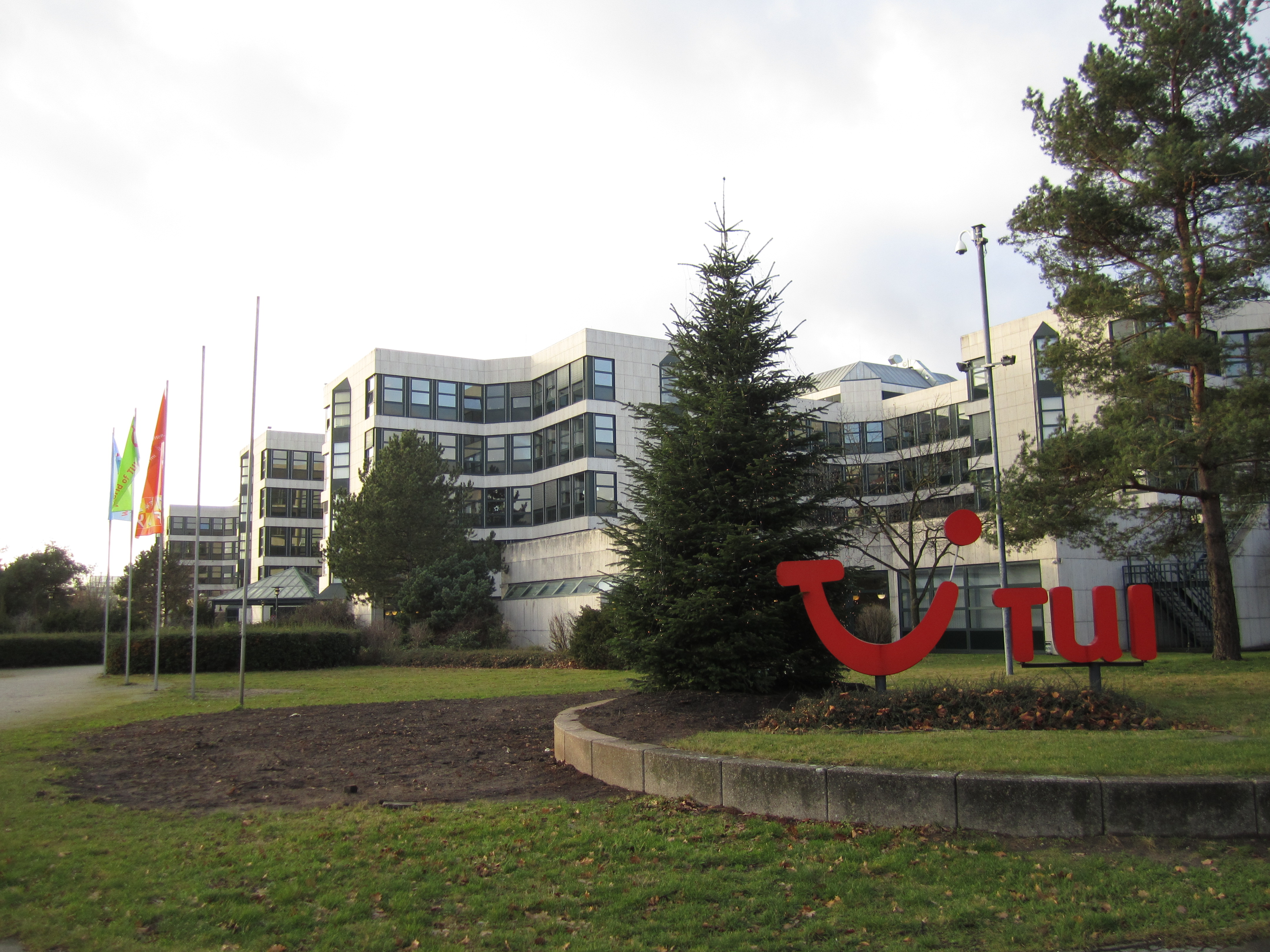 TUI office building in Hanover, Germany.